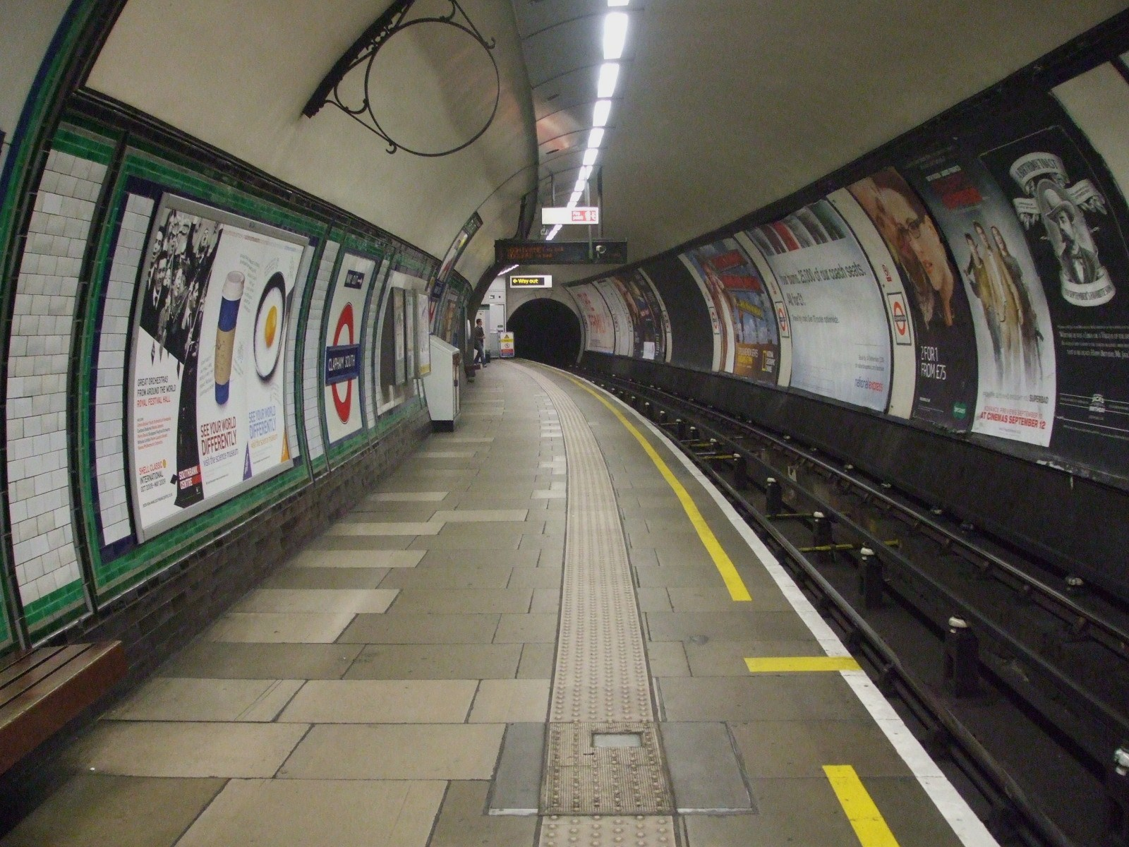 Clapham South tube station northbound platform looking south